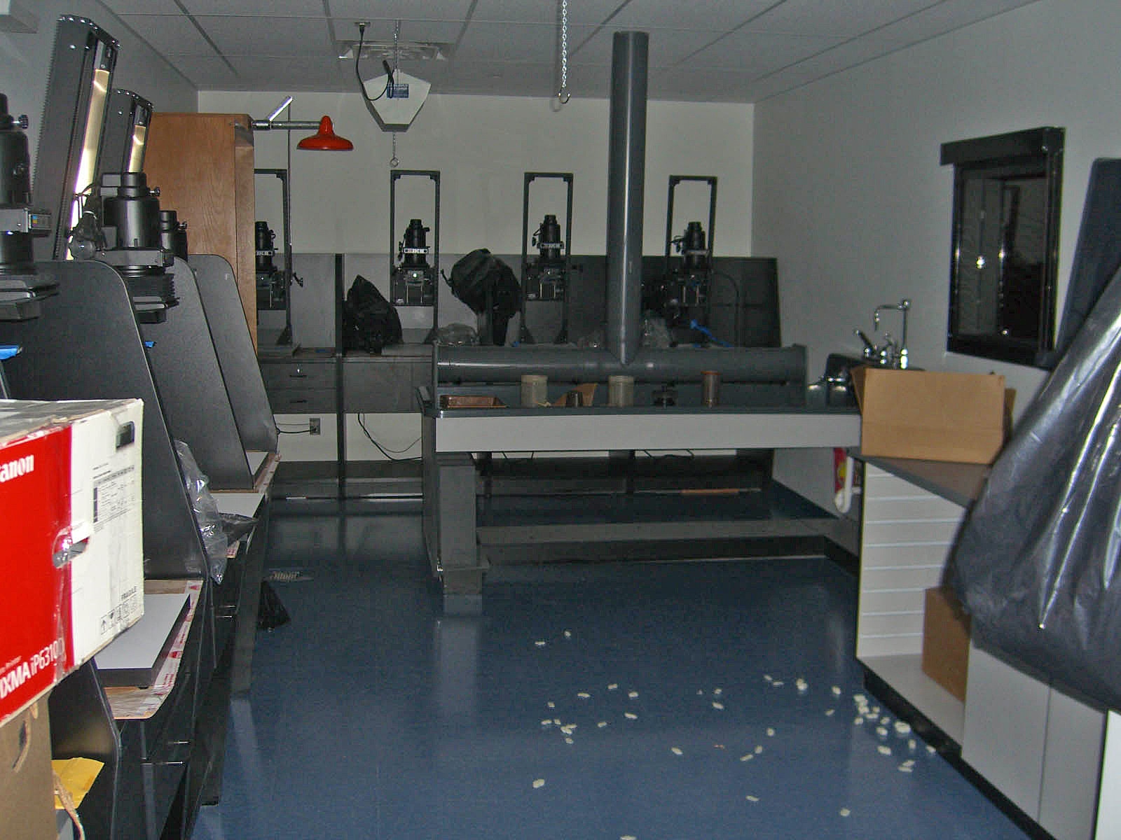 The dark room at Union City High School in Union City, New Jersey. On the right is a window that looks into the photography classroom from which the dark room is accessed. Many thanks to Mayor Brian P. Stack, Superintendent of Schools Stanley Sanger, and Director of Facilities Frank Acinapura for arranging my private tours of the school, and to Head of Security Joey Orefice for conducting them personally.